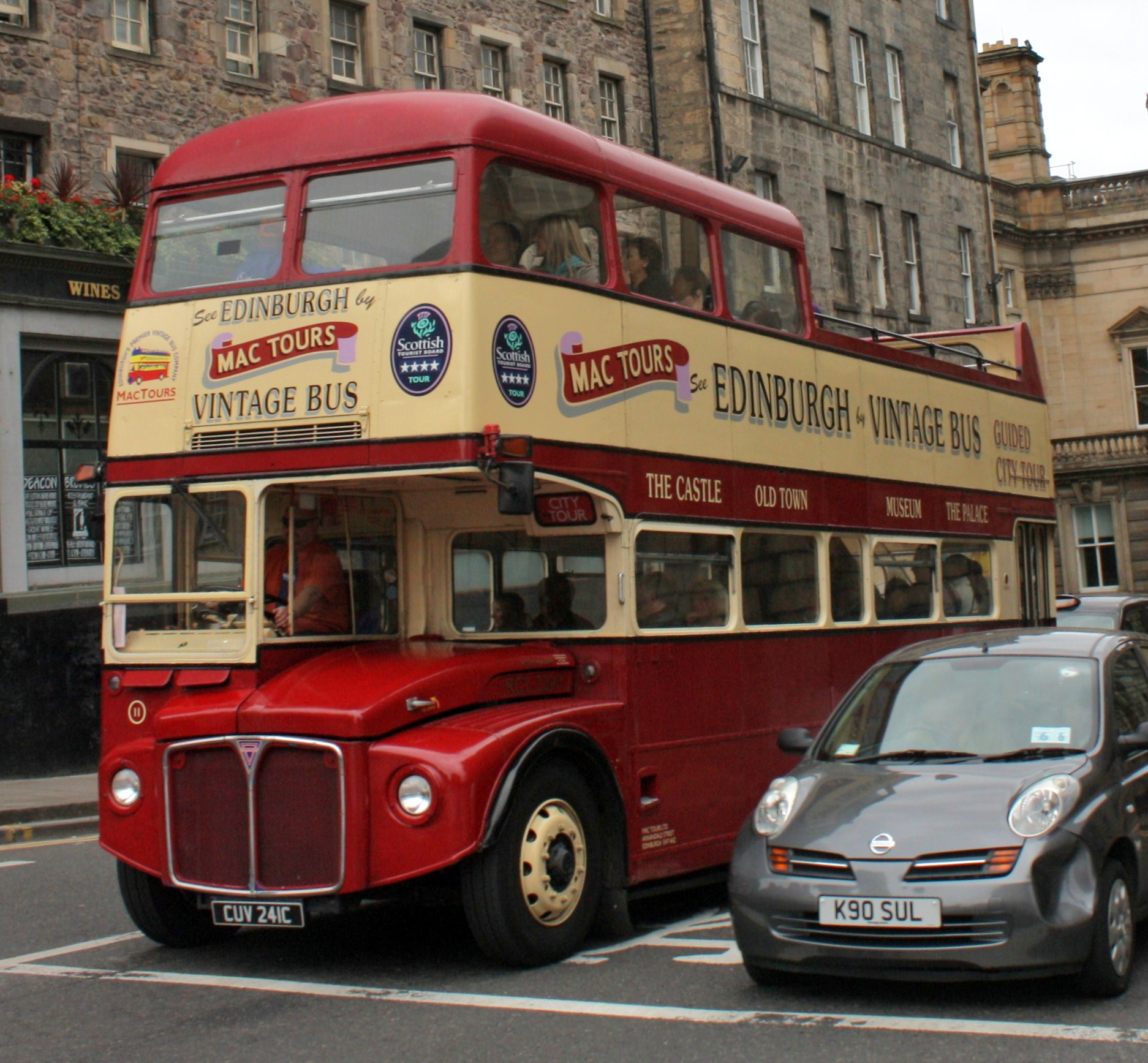 Lothian Buses open top tour bus 11 (RCL2241), reg. CUV 241C, a 1965 Routemaster double-decker, in Mac Tours livery. It's facing south on Bank Street, waiting at the crossroads with the Royal Mile. Bank Street is so named as the headquarters of the Bank of Scotland is the building visible at the far end of the street. Deacon Brodie's Tavern is visible to the left.